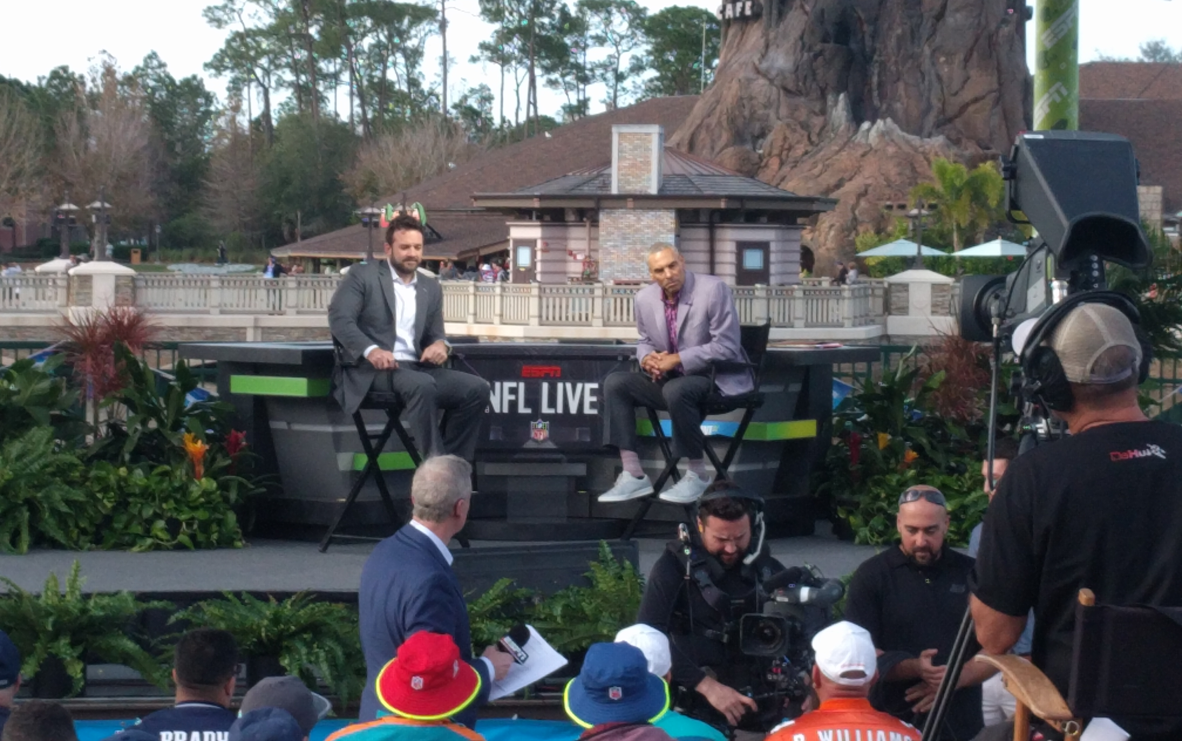 The filming of "NFL Live" on ESPN at Disney Springs, with Jeff Saturday and Herm Edwards